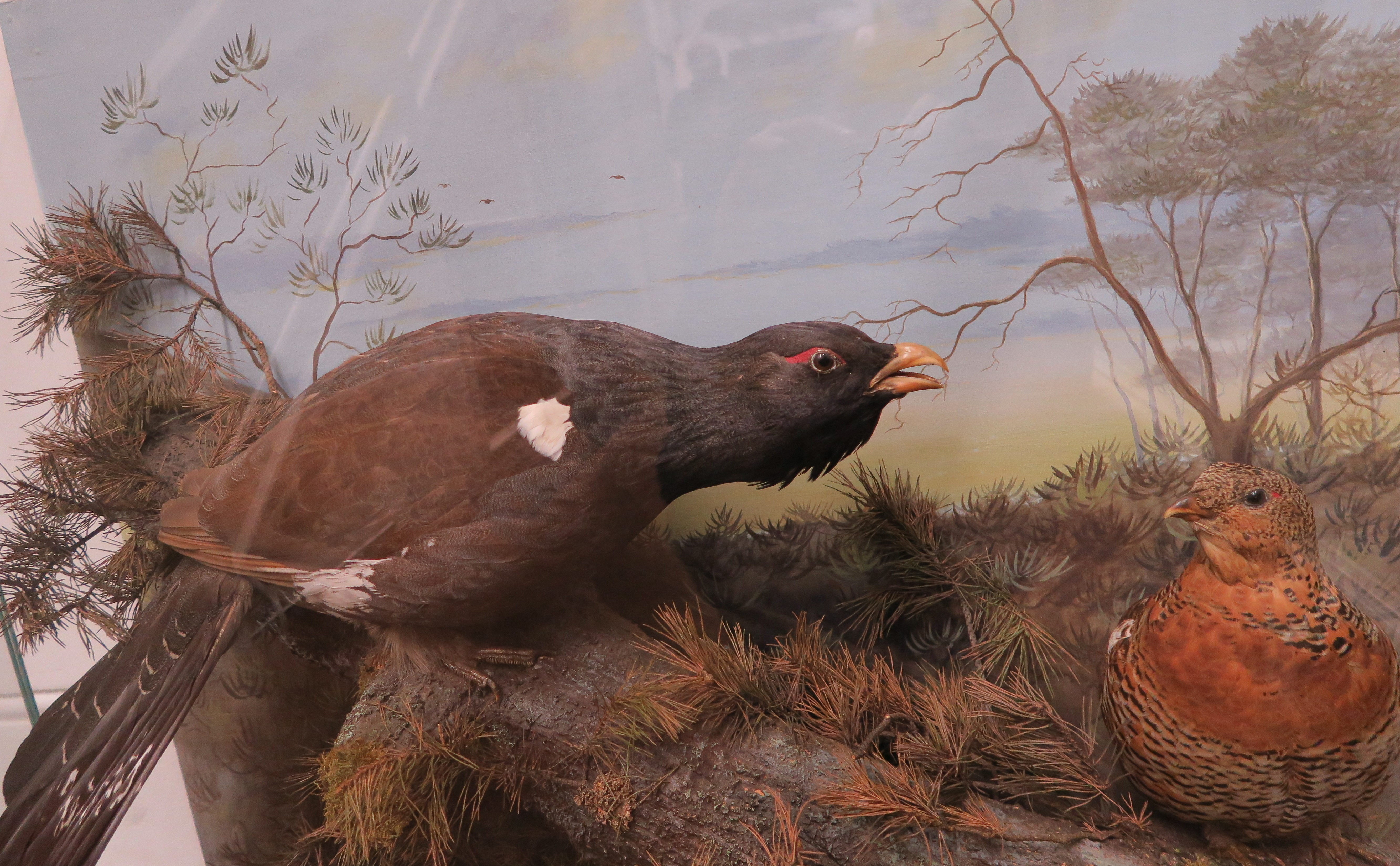 Bird diorama at the Booth Museum of Natural History, by Edward Thomas Booth whose displays are examples of surviving dioramas from the Victorian era.